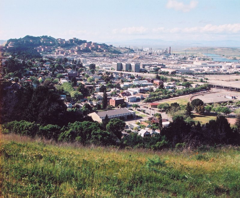 Point Richmond, Richmond, California, taken from atop nearby Nickols Knob, showing Chevron refinery in background across Interstate 580.